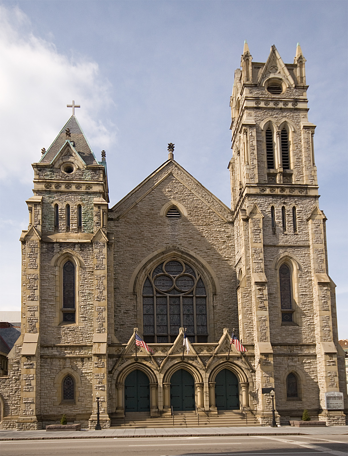 Covenant First Presbyterian Church - 8th and Elm. Taken by Greg Hume on March 2, 2008